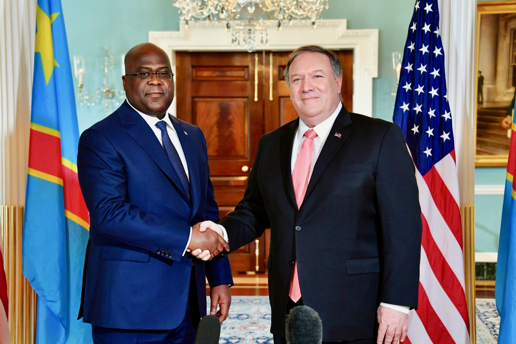 U.S. Secretary of State Michael R. Pompeo meets with Democratic Republic of the Congo President Felix Tshisekedi on the margins of the NATO Ministerial at the U.S. Department of State in Washington, D.C., in Washington, D.C., on April 3, 2019. [State Department photo by Michael Gross/ Public Domain]